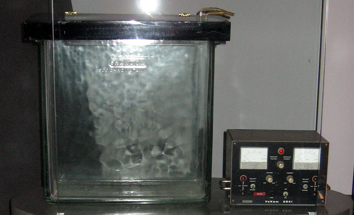 Electrophoresis apparatus used by Fred Sanger in 1950s in the Laboratory of Molecular Biology in Cambridge. Now exposed at the Science Museum, London.